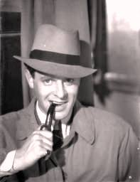 Louis Borel